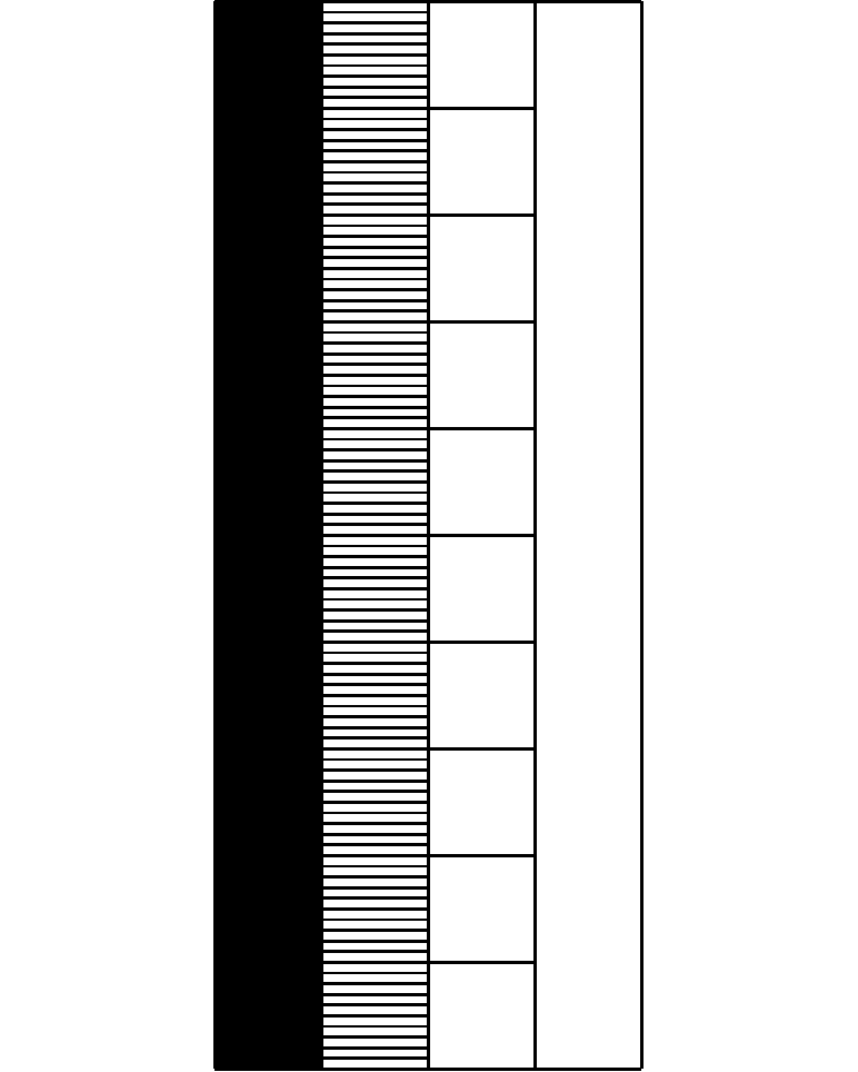 Four decades: One 10, ten 1's, one-hundred 0.1's,1000 0.01's.